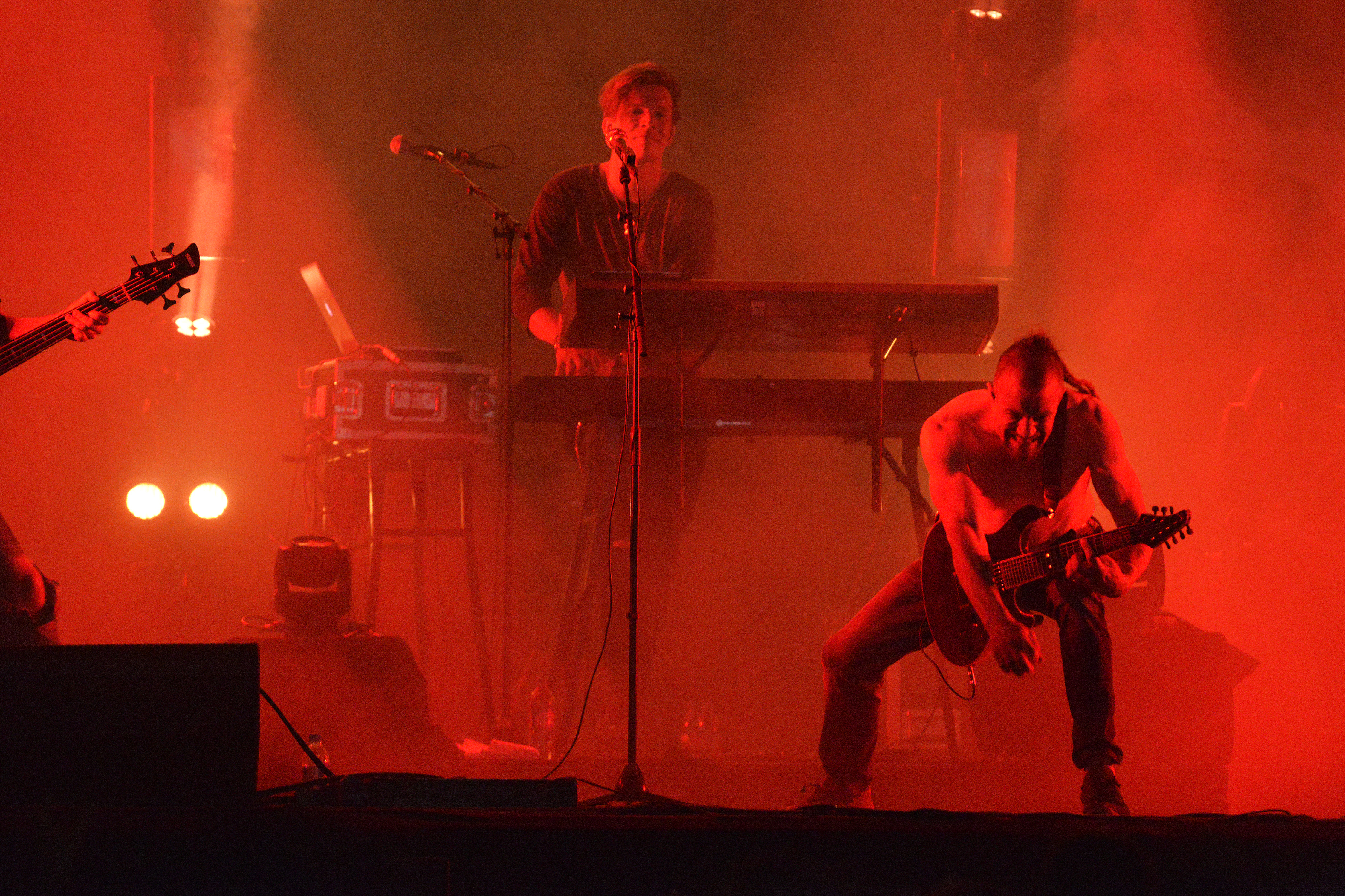 Pain of Salvation show, 2017 Hellfest, France.